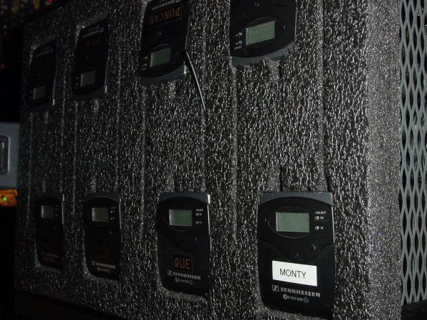 A case of In-ear monitor recievers